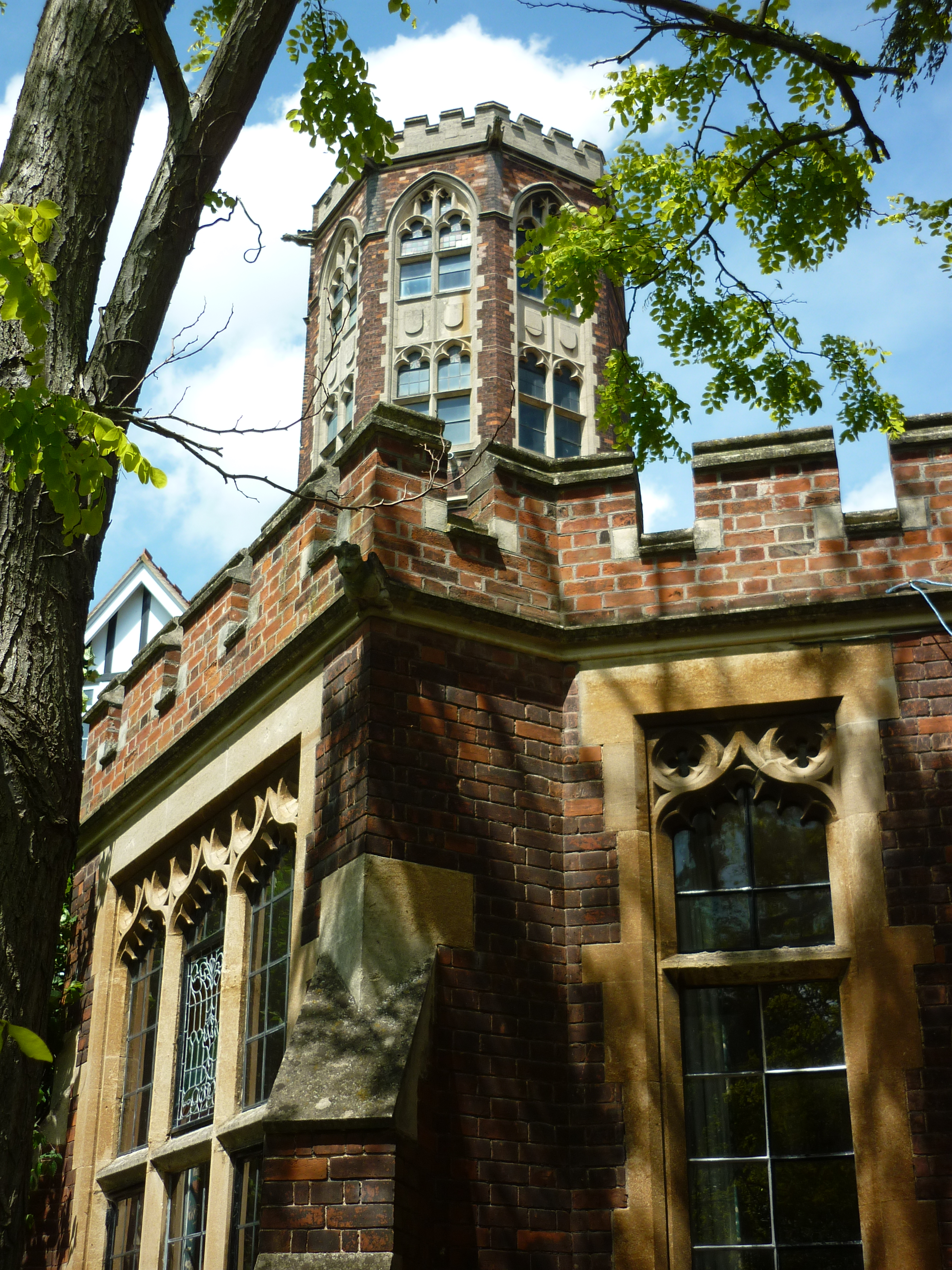 Homerton's Castellated Tower, June 2012